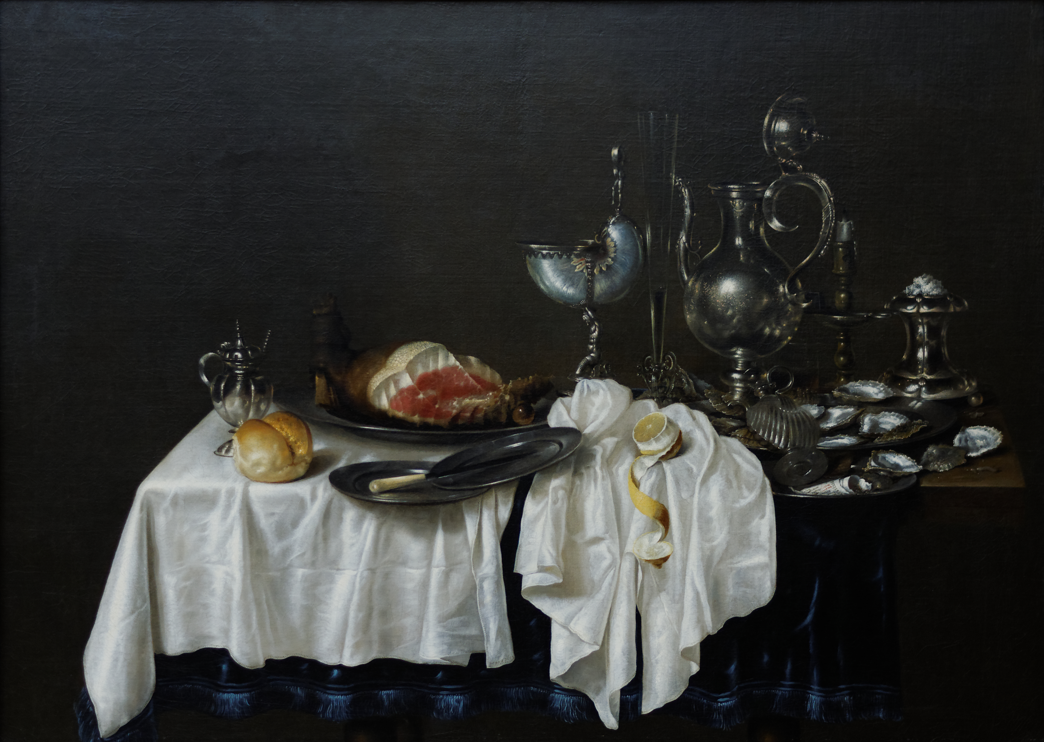 Still life with nautilus cup.